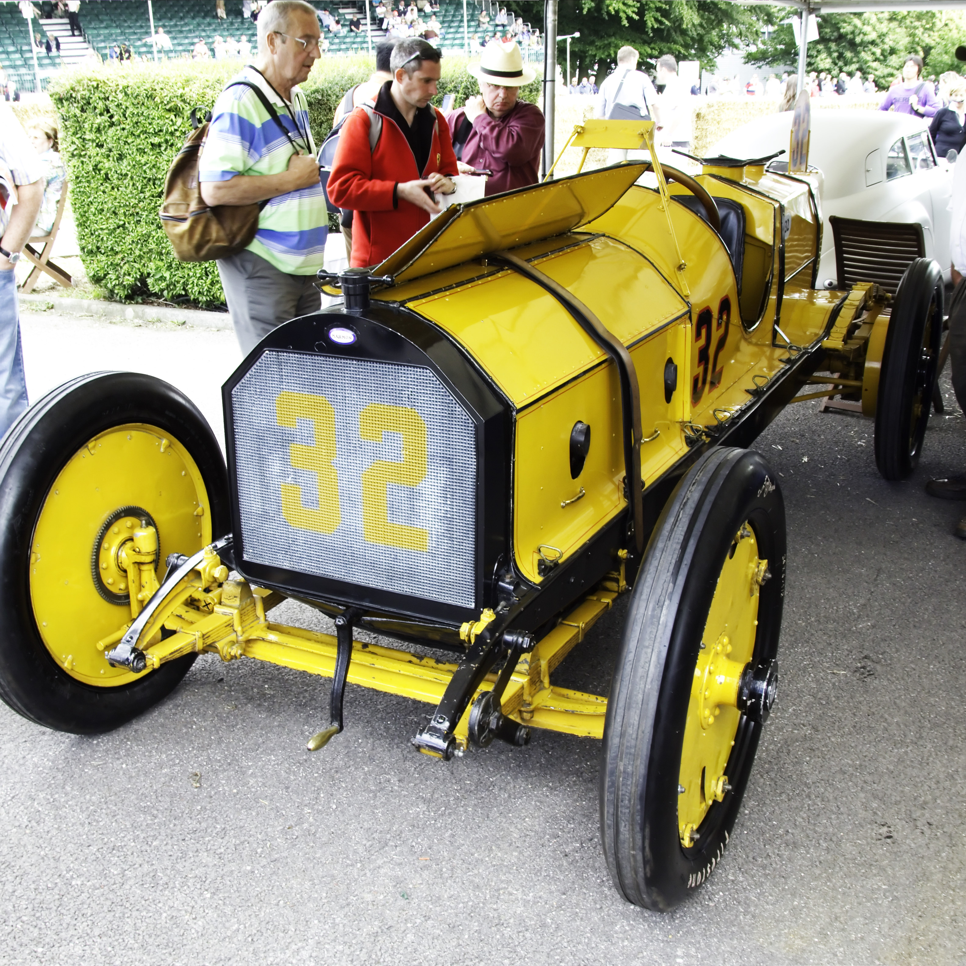 First ever winner of the Indianapolis 500